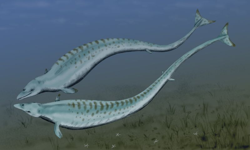 Basilosaurus cetoides, an archaeocete whale from the Late Eocene of North America and Egypt digital coloring